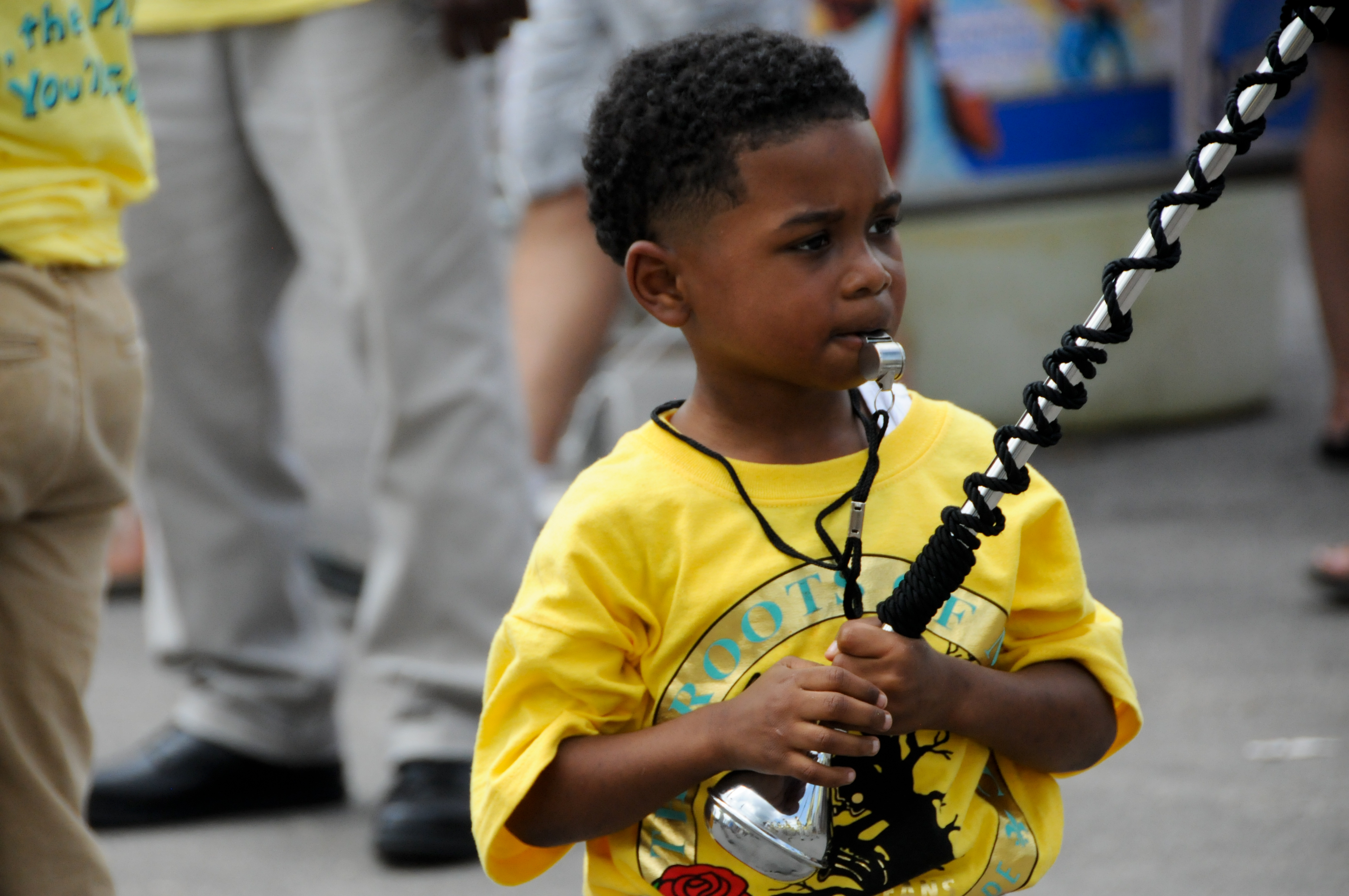 Band students with Roots of Music.